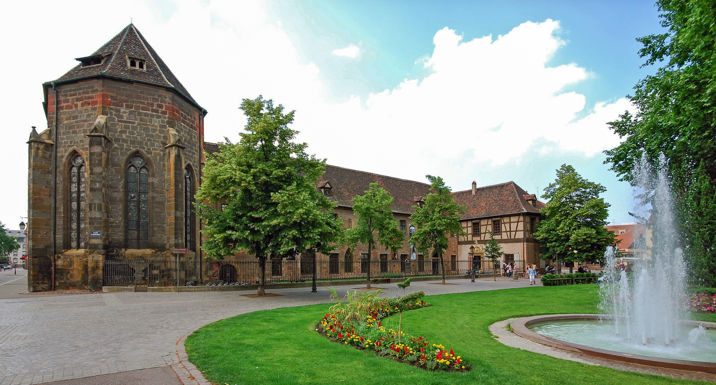 East facade of convent of Unterlinden on place des Unterlinden in Colmar (Haut-Rhin, France). .